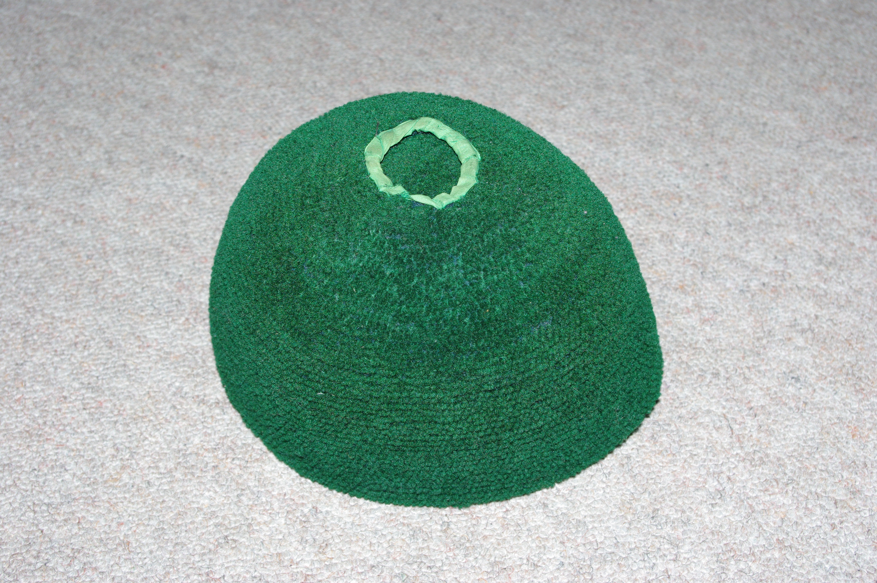 Typical 19th century hat of a miner from the Harz mountain mining area